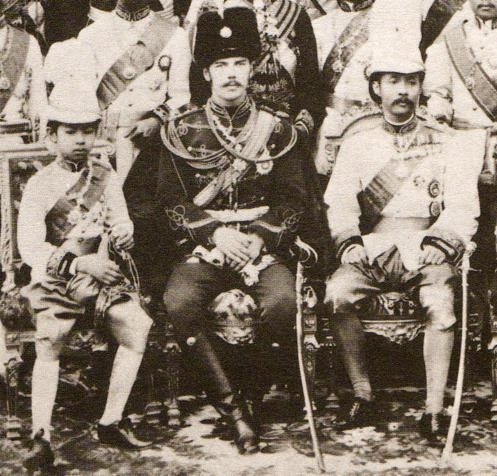 Tsarevich Nicholas (Later Tsar Nicholas II) on a state visit to Siam in March 1891. (left to right), Crown Prince Maha Vajirunhis, Tsarevich Nicholas, King Chulalongkorn